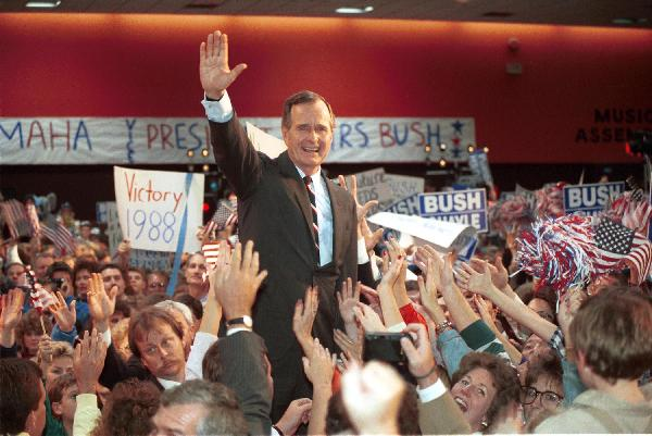 Vice President George H. W. Bush attends a campaign rally in Omaha, Nebraska